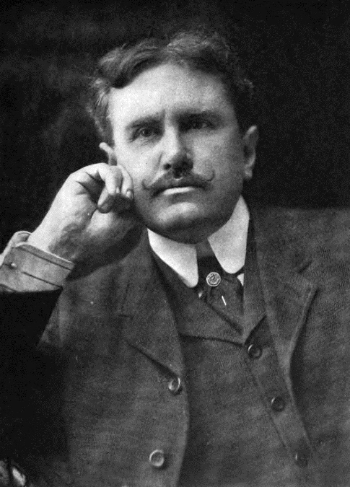 O. Henry